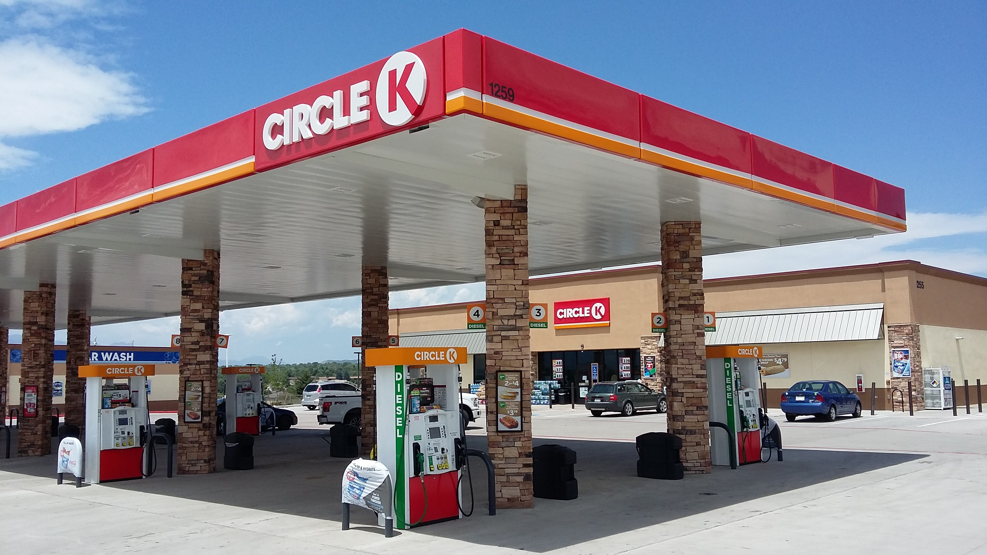 Circle K, 1255 Academy Park Loop, Colorado Springs, Colorado